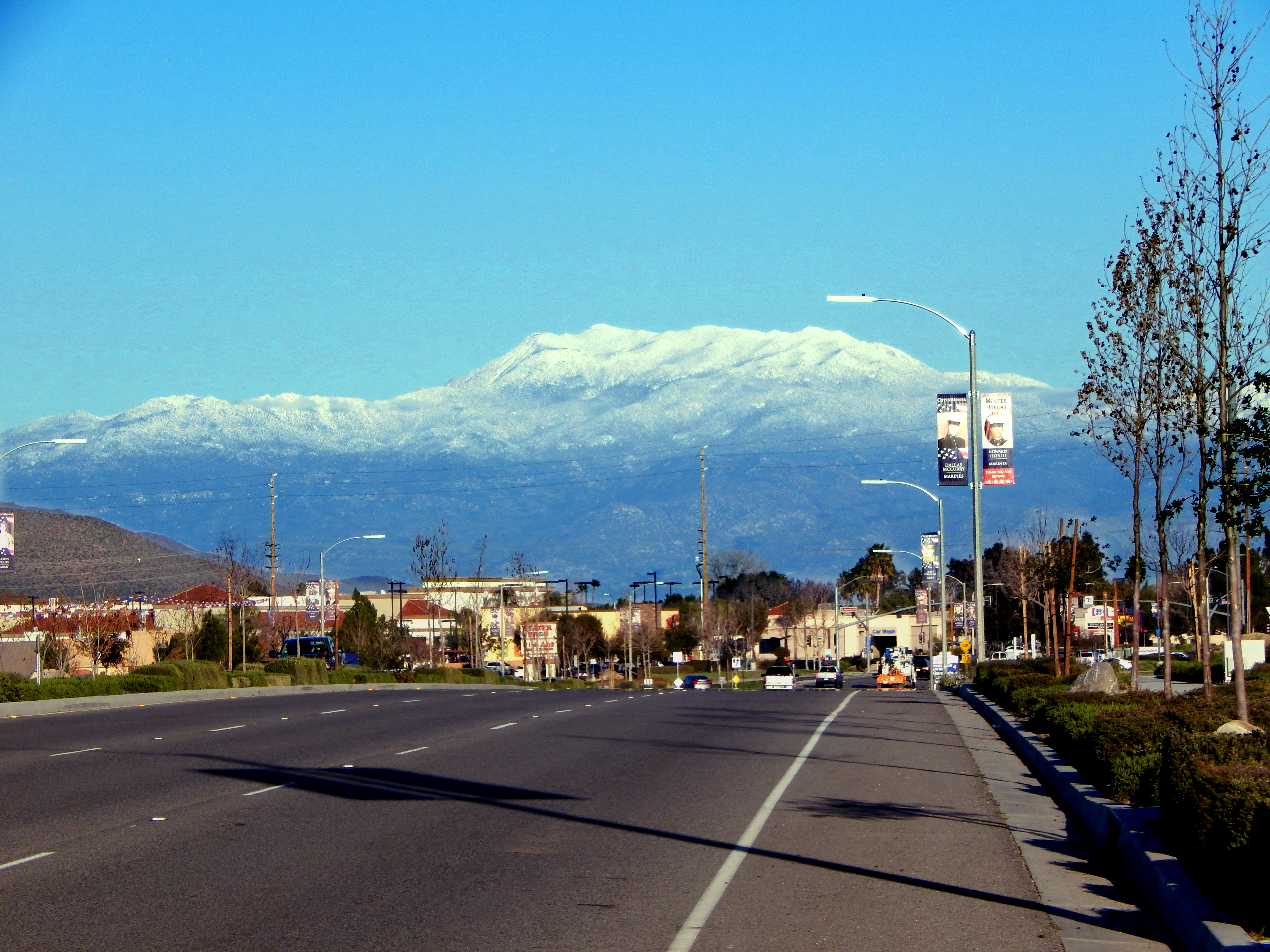 Mt San Jacinto, seen from Newport Road near Murrieta Road, Menifee, California, USA